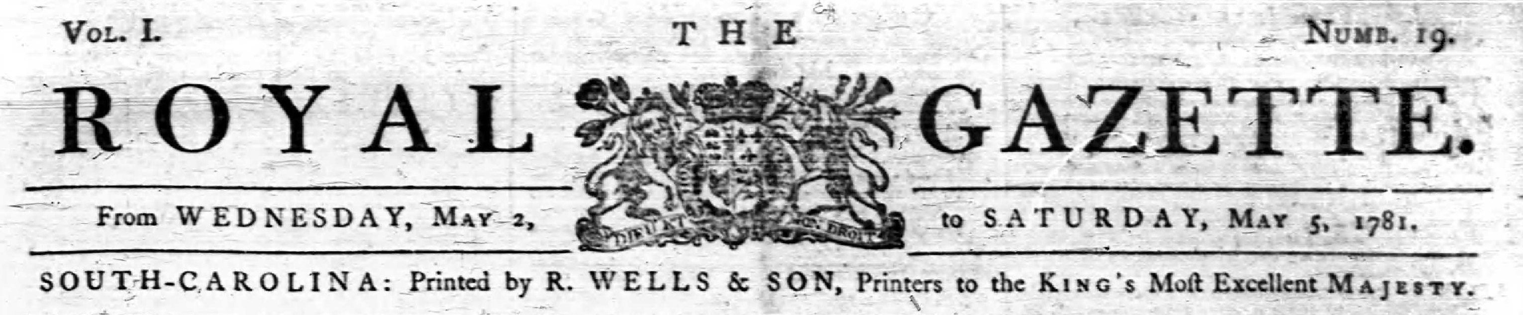 Top of page one of the May 2-5, 1781 issue of The Royal Gazette, the renamed version of The South-Carolina and American General Gazette